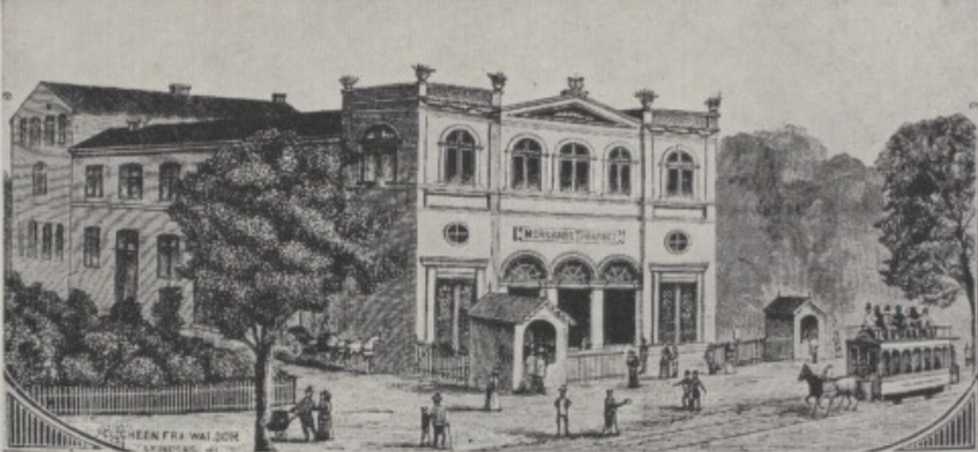 Morskabs Theatret, now Betty Nansen Theater, in Frederiksberg, Copenhagen, Denmark